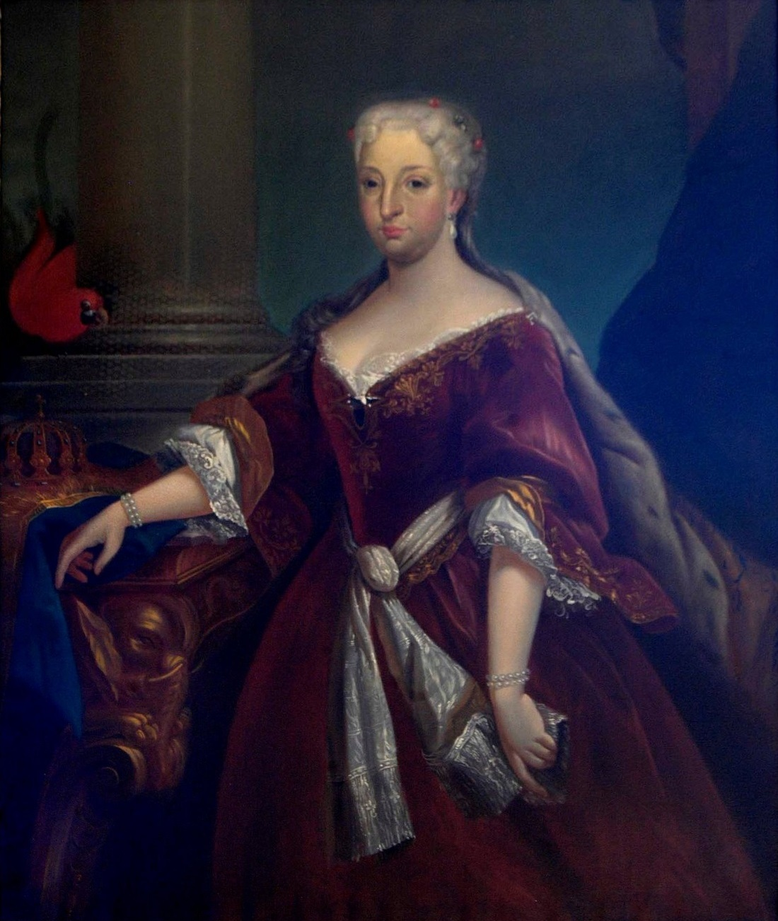 Portrait of Maria Anna of Austria (1683-1754)